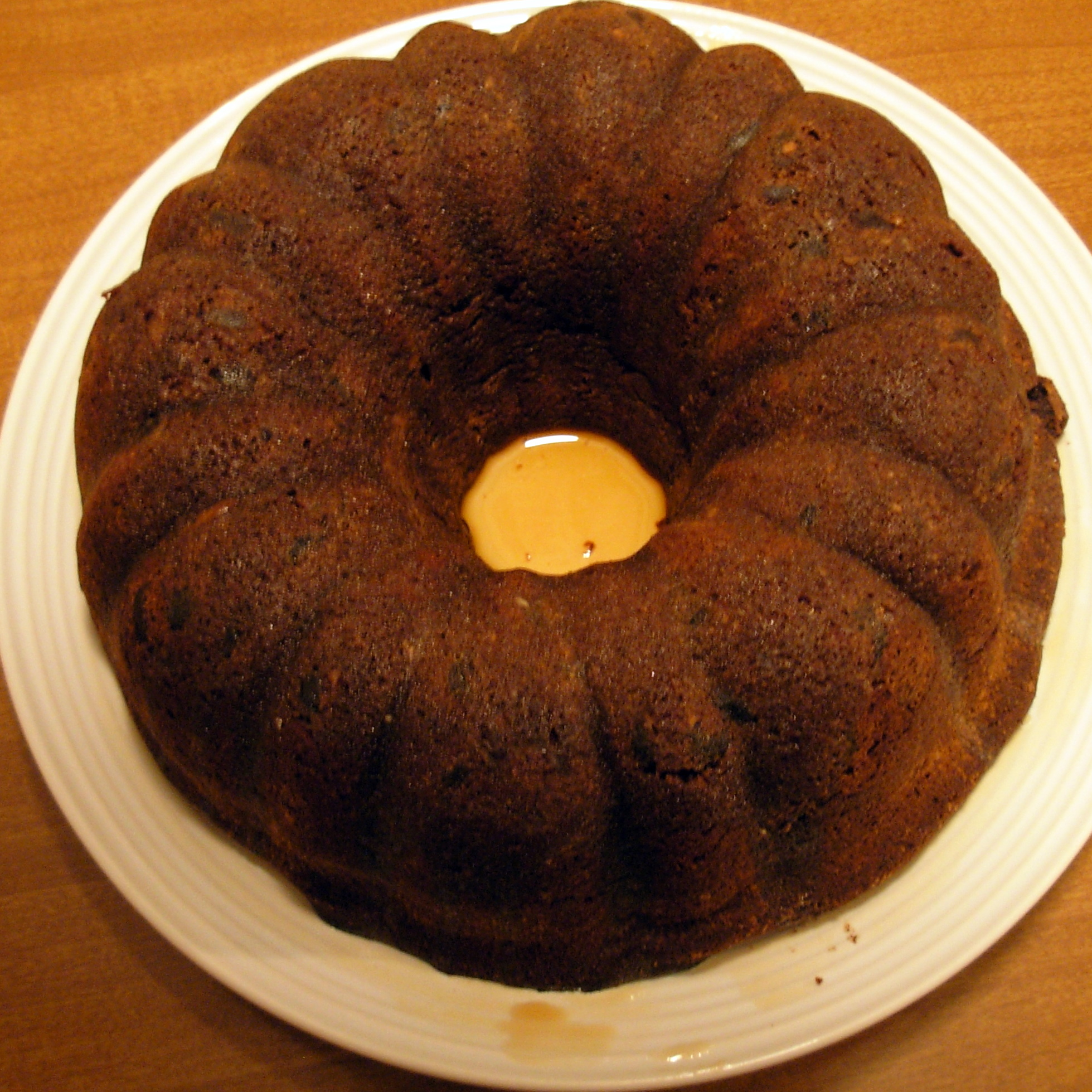 Ring-shaped Bundt cake